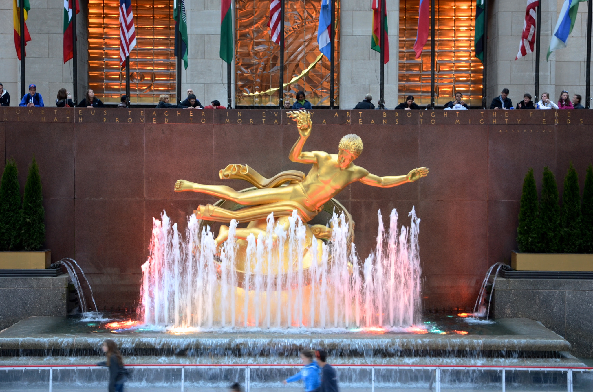 500px provided description: Rockefeller Plaza in New York. [#new york ,#nyc ,#times square]